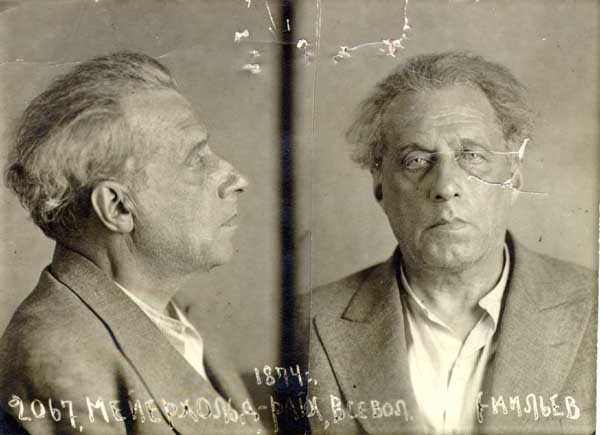 Mugshot of Meyerhold taken at his arrest Image taken from biography [1]